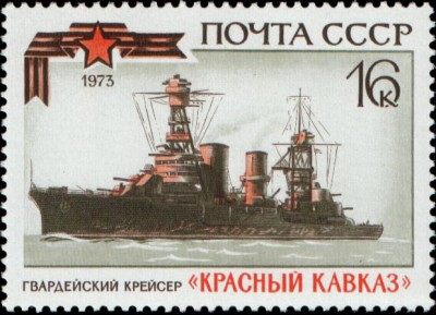 Гвардейская летна - марка